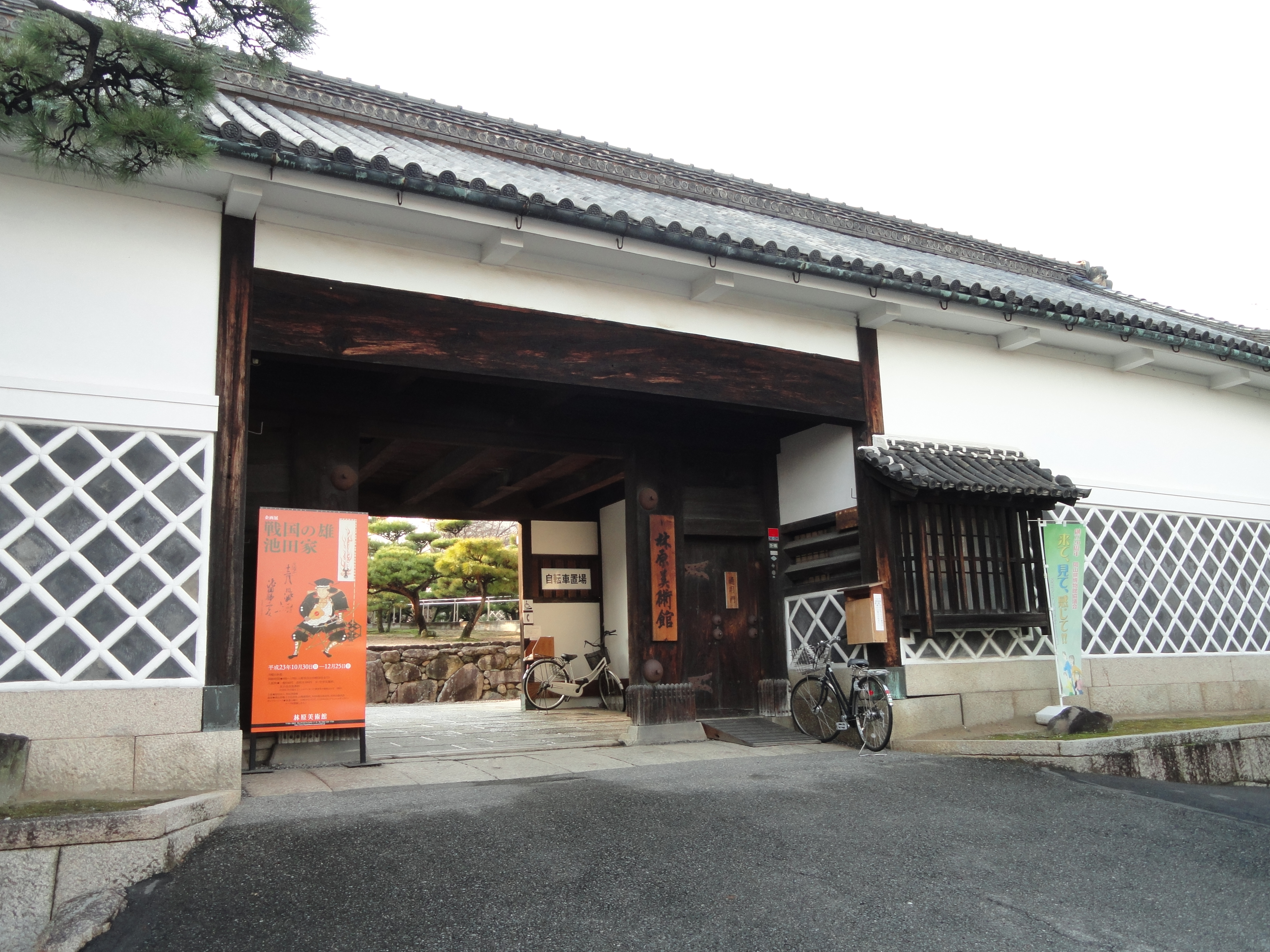 Exhibit in the Okayama Orient Gate of the Hayashibara Museum of Art, Okayama City, Okayama, Japan.